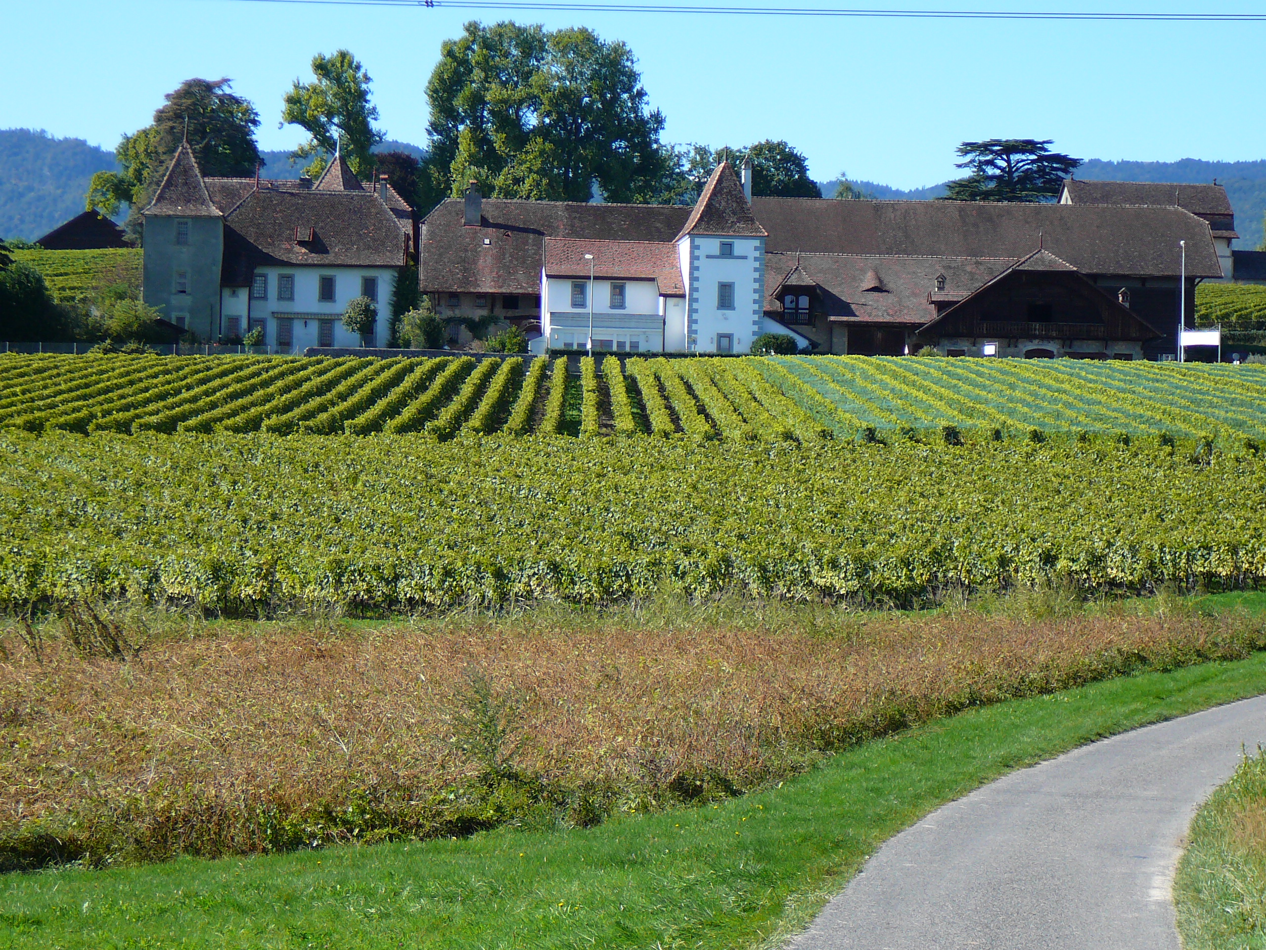 Panorama on the Castle of Duillier, in Switzerland